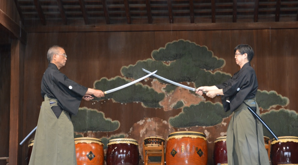 Tenshinsho Jigen Ryu demo at Yasukuni Shrine, 2009